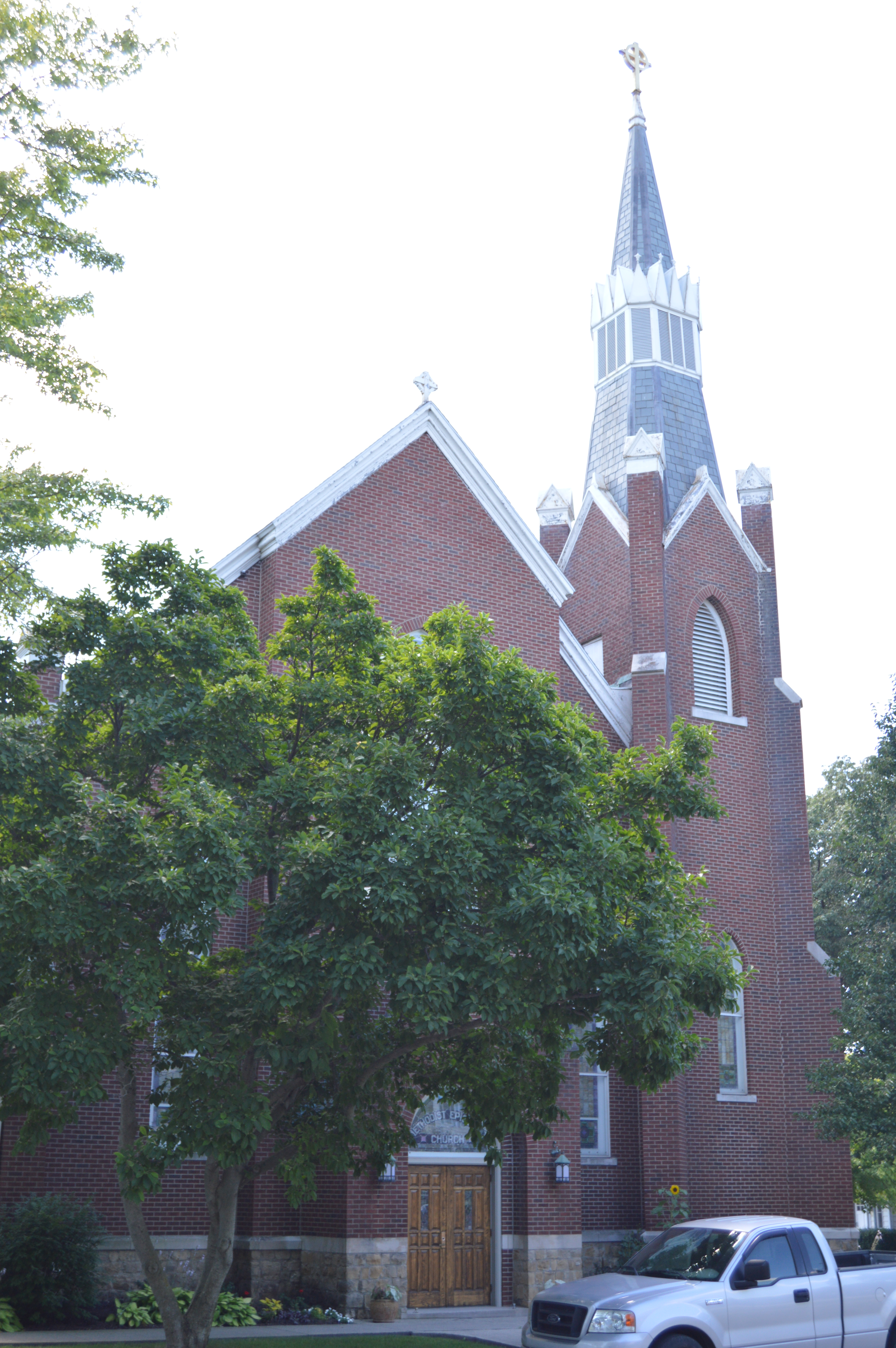 Front of the former Delphi Methodist Episcopal Church, located at 118 N. Union Street in Delphi, Indiana, United States. Built in 1869, it is listed on the National Register of Historic Places.